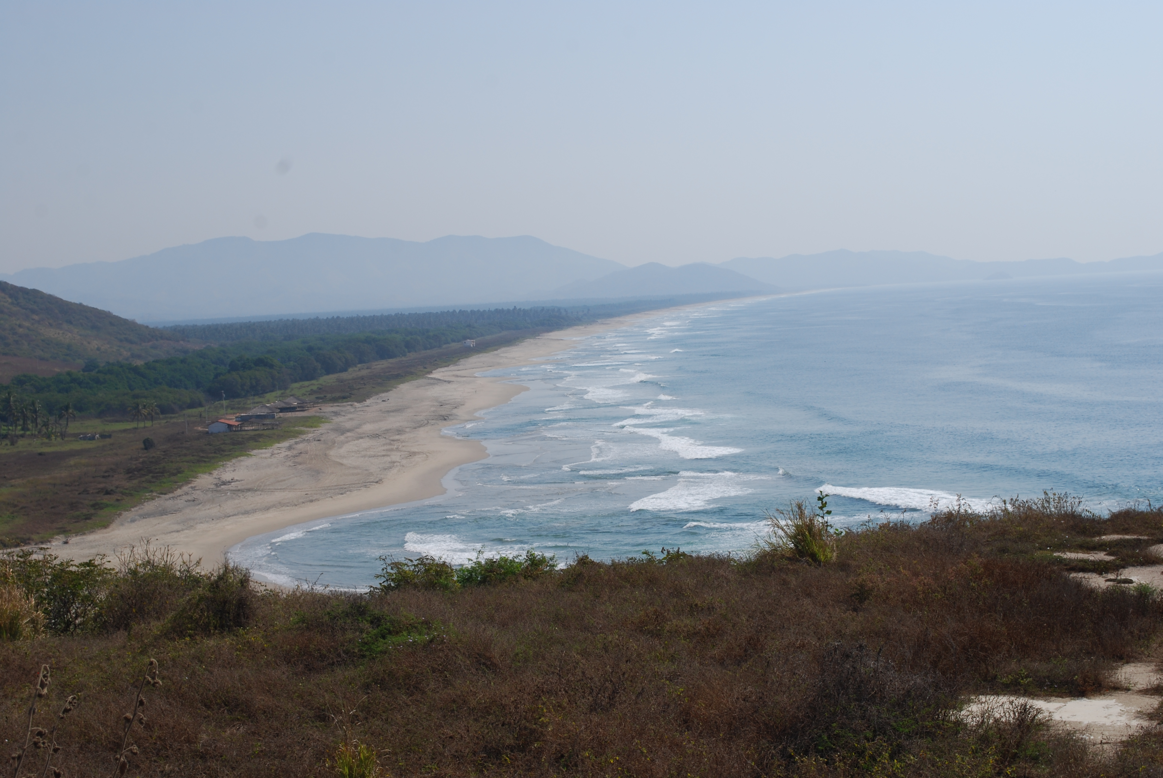 Beach east of the El Calvario lookout point in Tecpan, Guerrero, Mexico